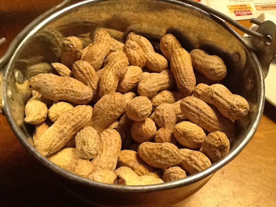 in Texas Roadhouse